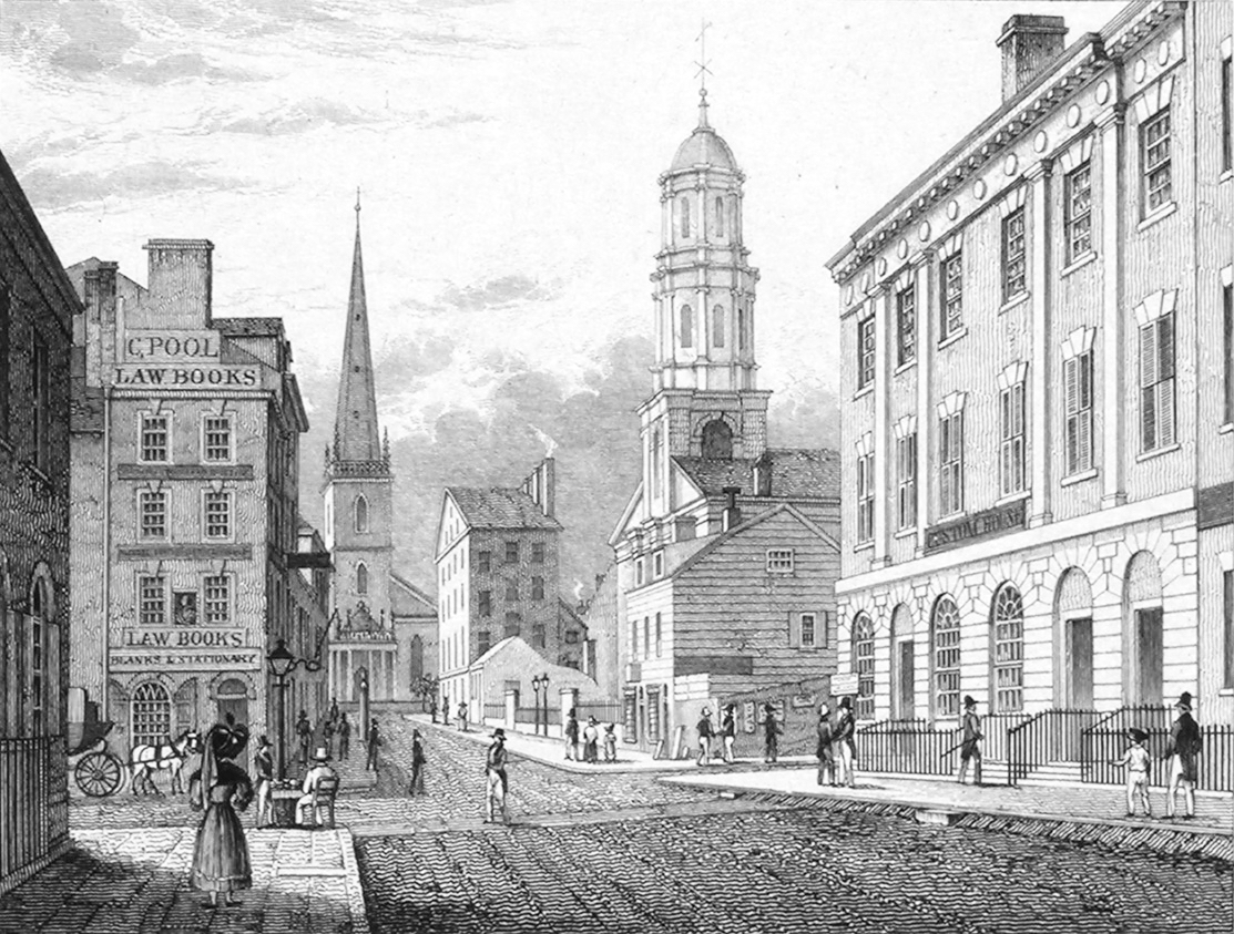 United States Custom House (right), Wall Street, at the northeast corner of Nassau Street. For a description of its activities, see (1825) The Picture of New-York, and Stranger's Guide to the Commercial Metropolis of the United States, A. T. Goodrich, p. 141. It has since been replaced by the building now called Federal Hall.